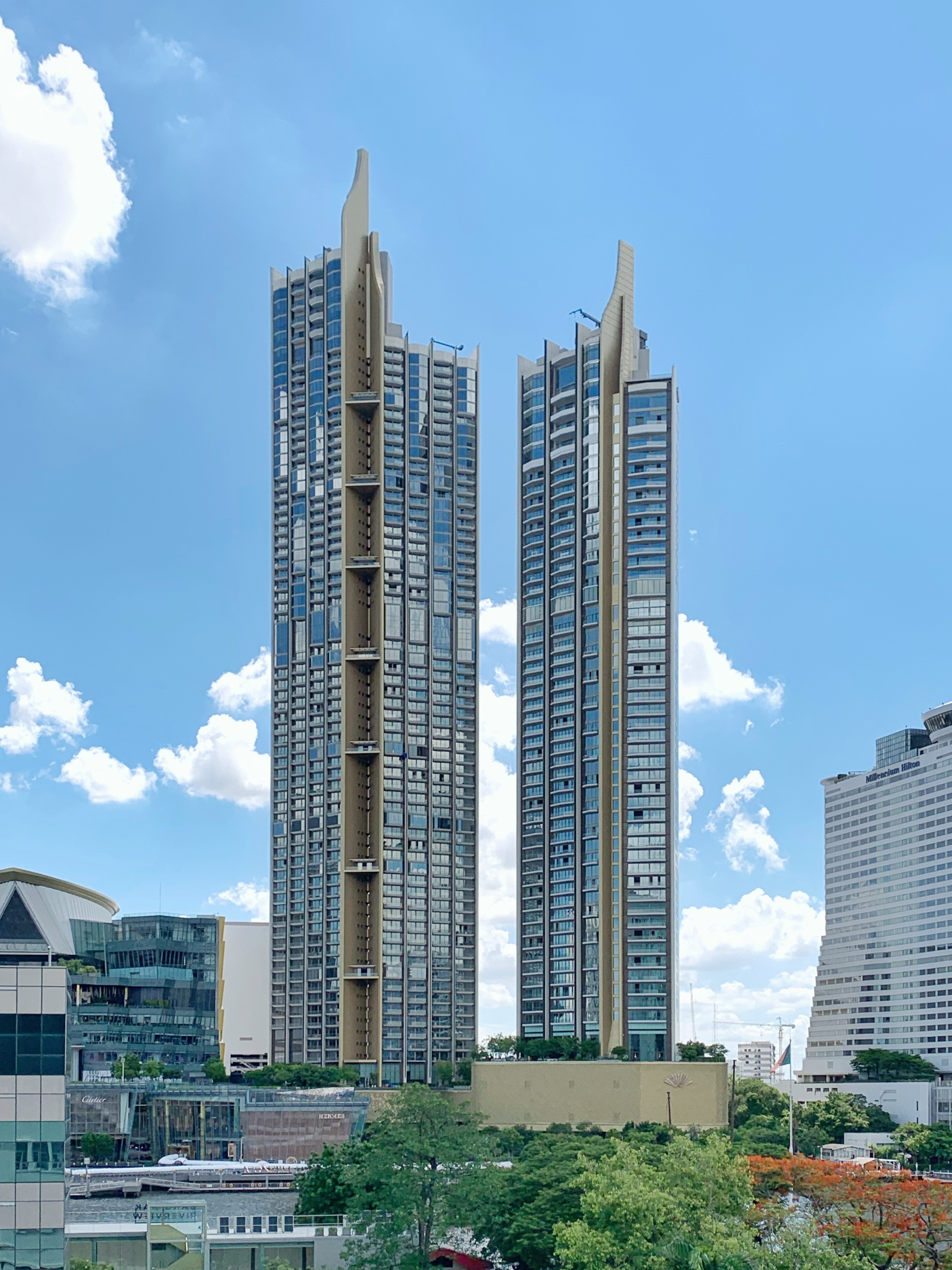 Iconsiam